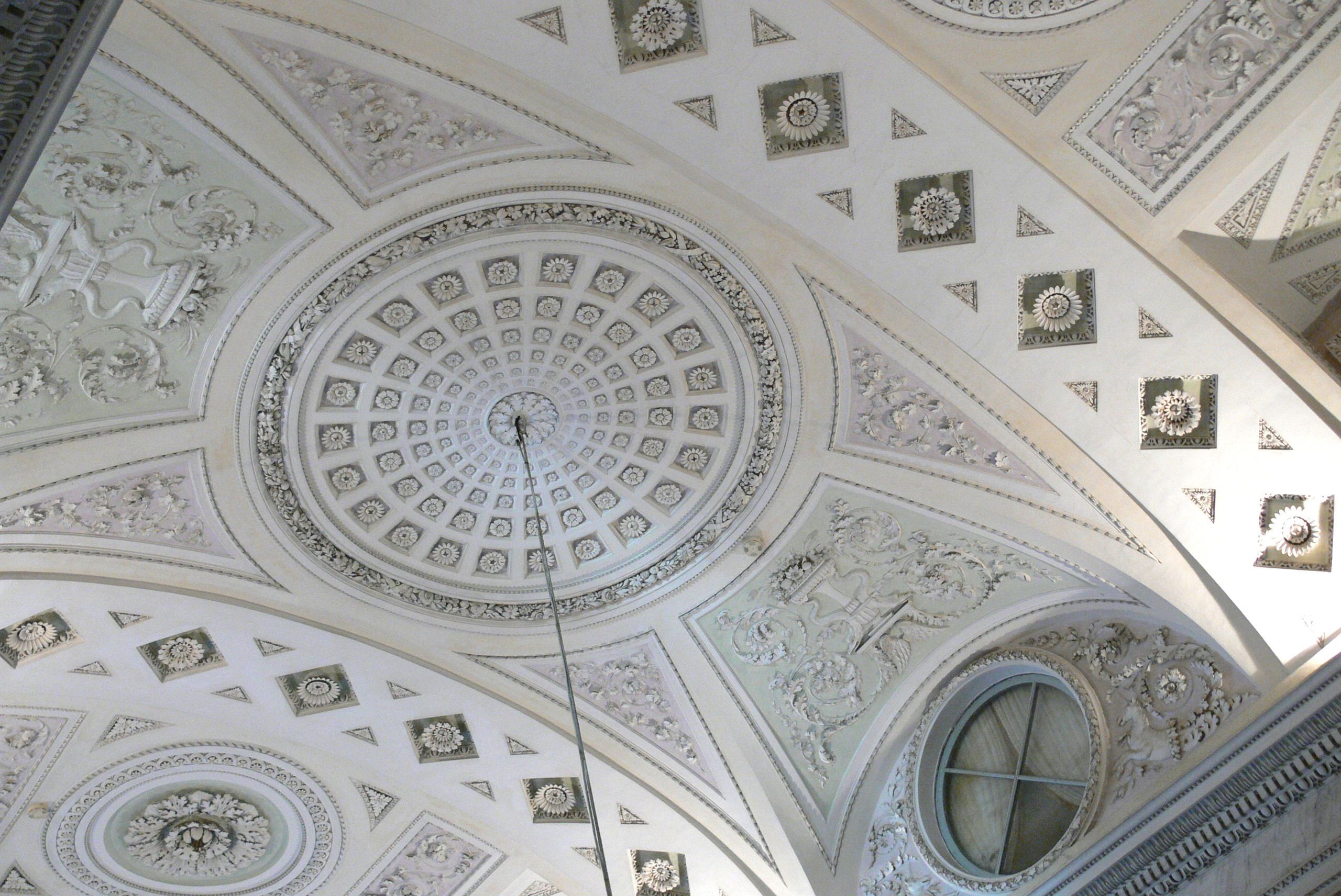 Isola Bella ( Lago Maggiore ). Borromean palace: Ballroom in Empire style - ceiling.